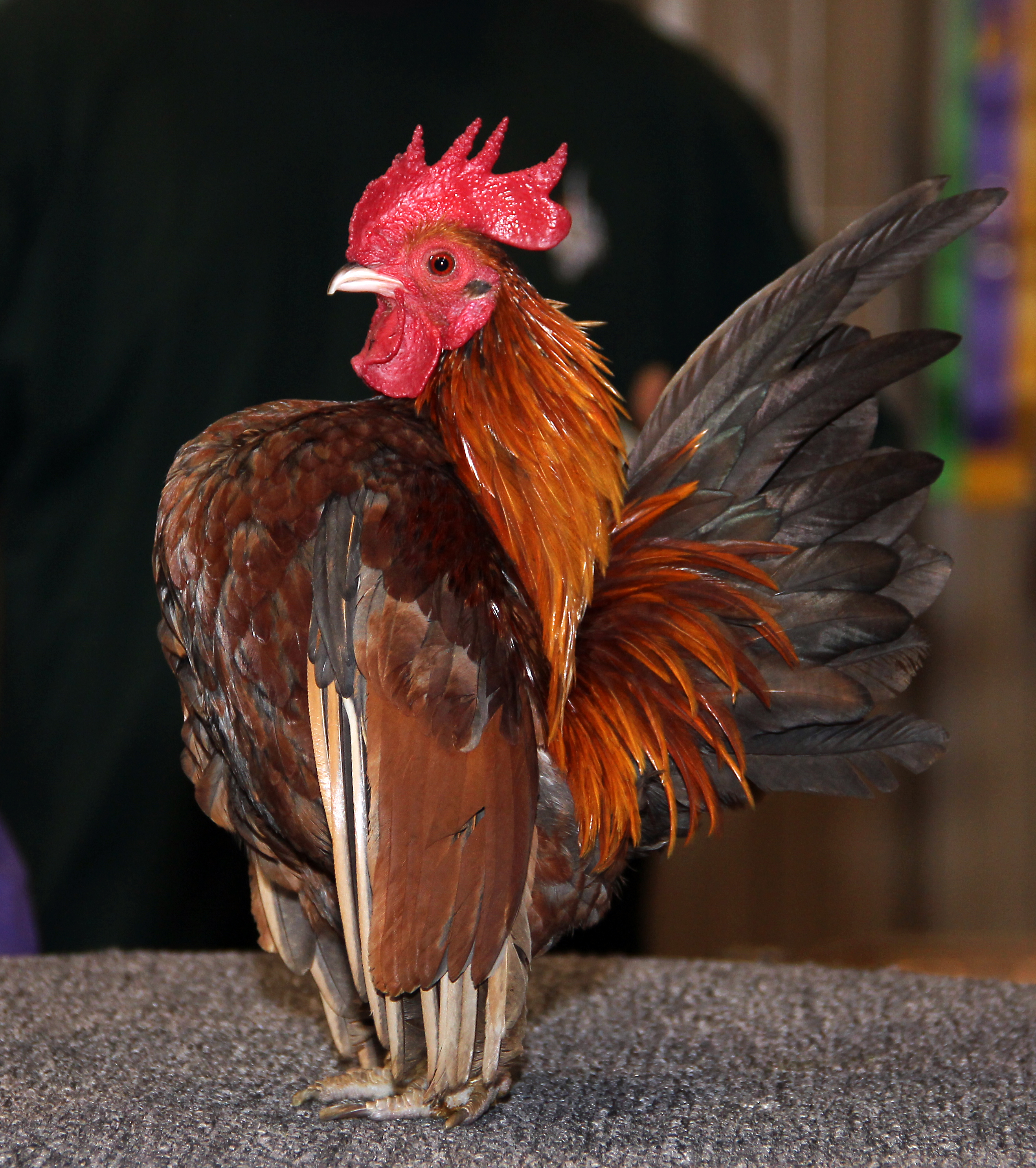 This is a picture of a Traditional Serama bred by Jerry Schexnayder, the importer of Serama to The United States of America.